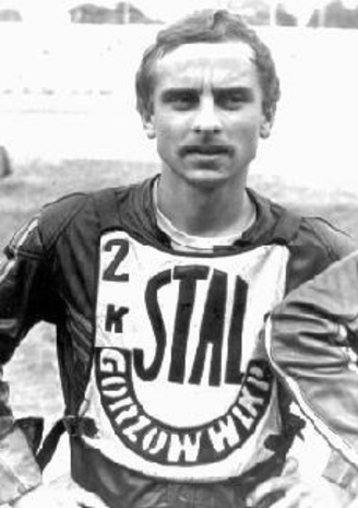 Marek Towalski - polish speedway rider.